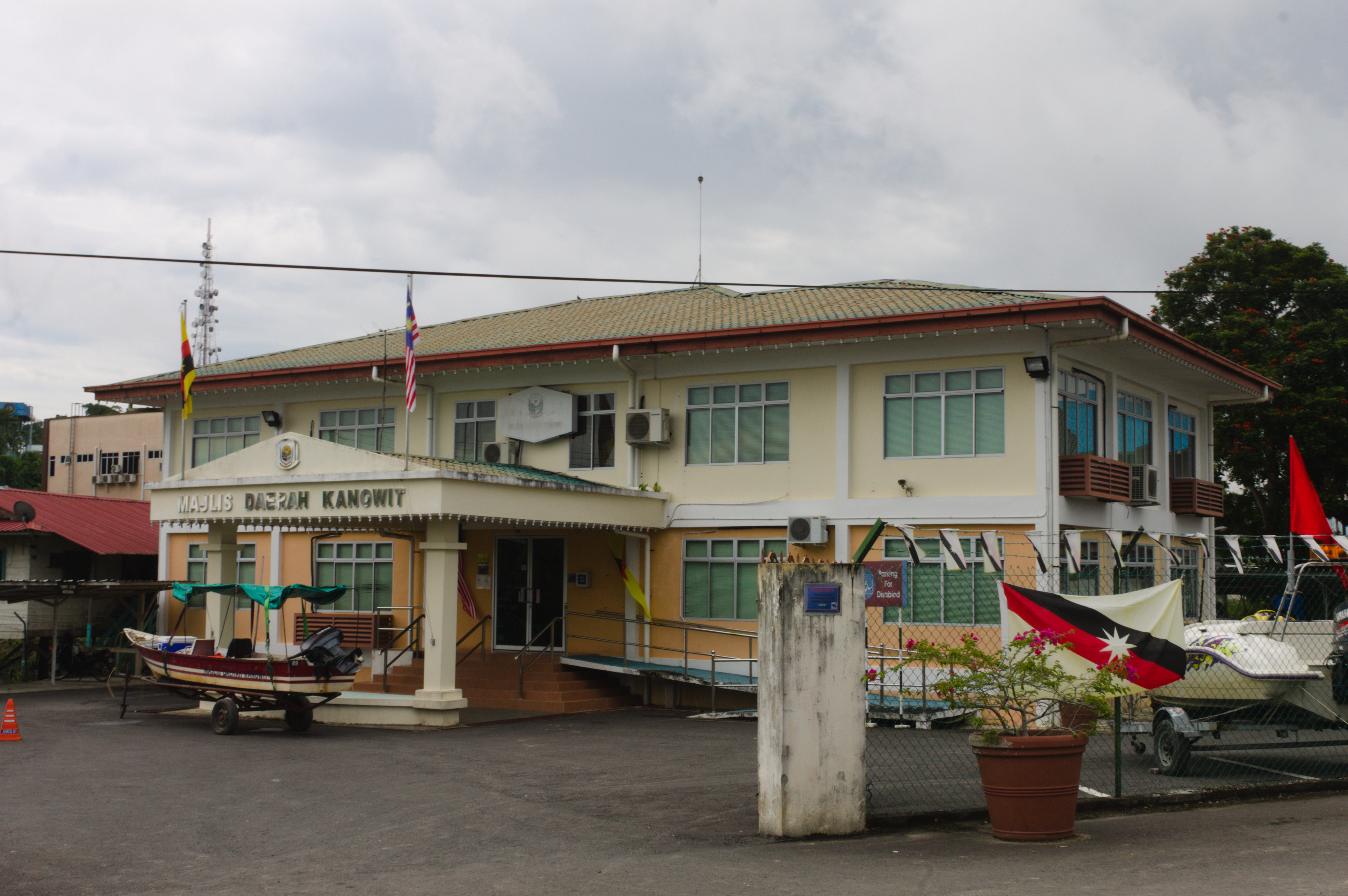 Kanowit District Council (near riverbank)